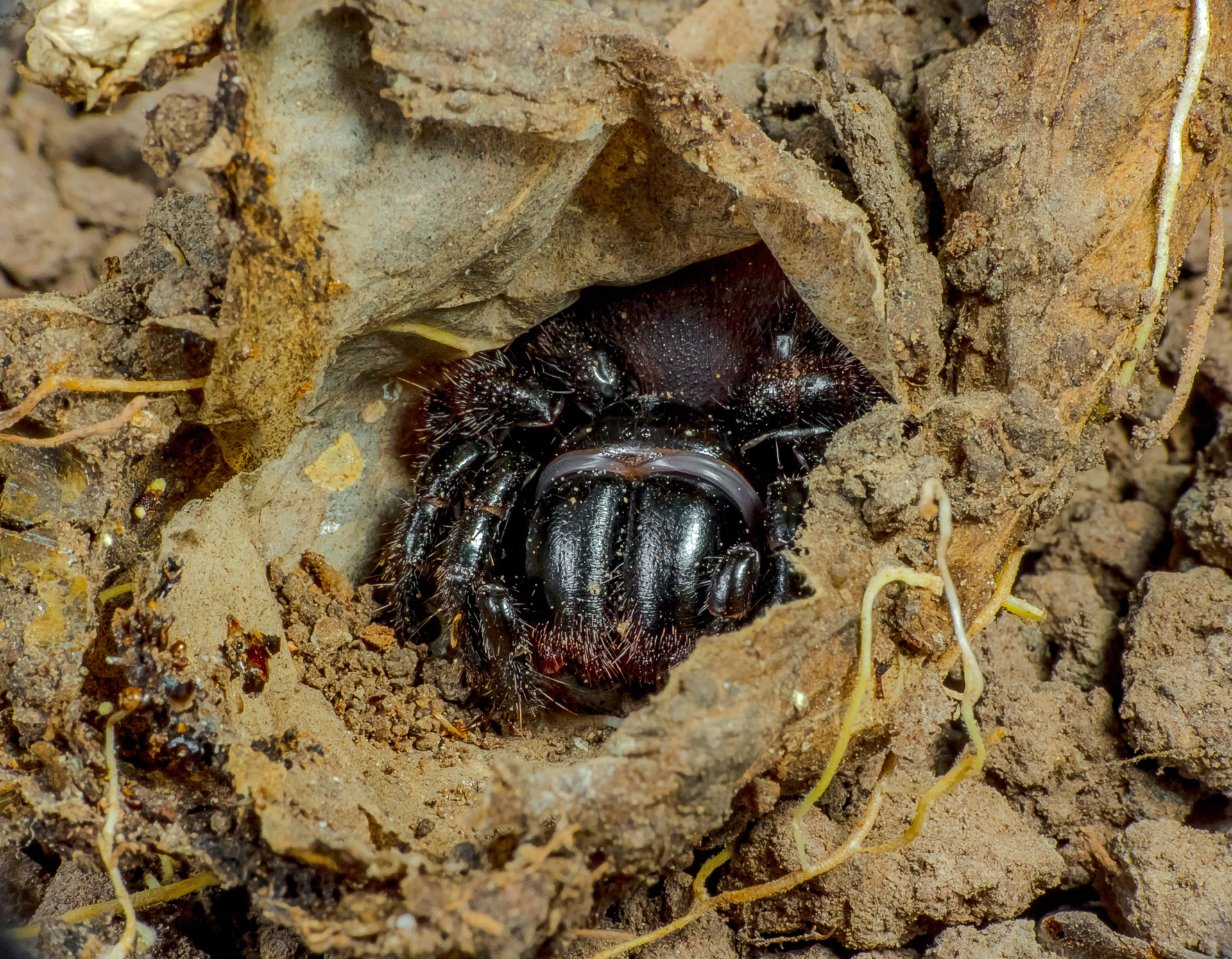 Mygalomorphae Actinopodidae Missulena bradleyi Paten Road, The Gap, Brisbane Collected: Raven & Whyte Photo: Robert Whyte